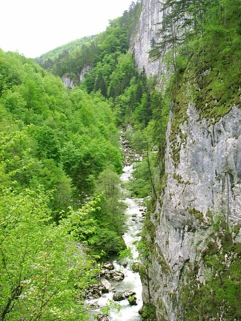 Koritnica river canyon near Han Pijesak, RS, BiH